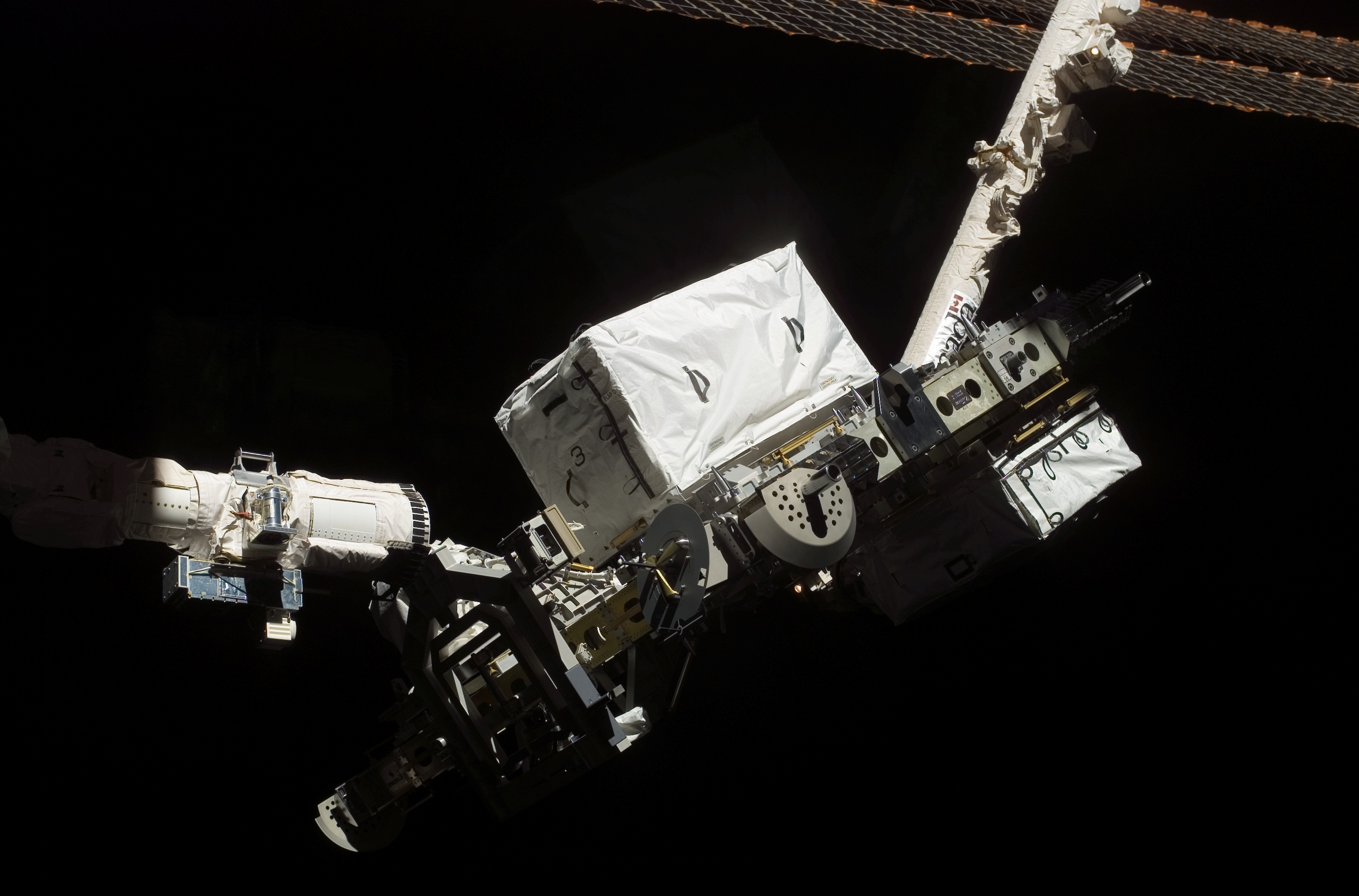 S118-E-07117 (14 Aug. 2007) --- The Space Shuttle Endeavour's Remote Manipulator System (RMS) robotic arm (left) moves away following the hand-off of an external stowage platform (ESP-3) to the station's robotic arm while docked with the International Space Station. Astronauts Tracy Caldwell and Barbara R. Morgan, both STS-118 mission specialists, were inside at Endeavour's controls as the shuttle's robotic arm lifted the storage platform from the cargo bay to hand it over to the station's robotic arm, also known as Canadarm2. Astronauts Charlie Hobaugh, pilot, and Clay Anderson, Expedition 15 flight engineer, then used the Canadarm2 to attach the 13-by-7-foot platform to the station's Port 3 truss.